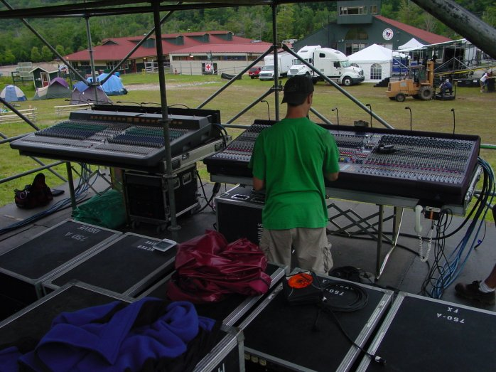 Two FOH consoles at an outdoor event. Each console is typically dedicated to a single band or artist.